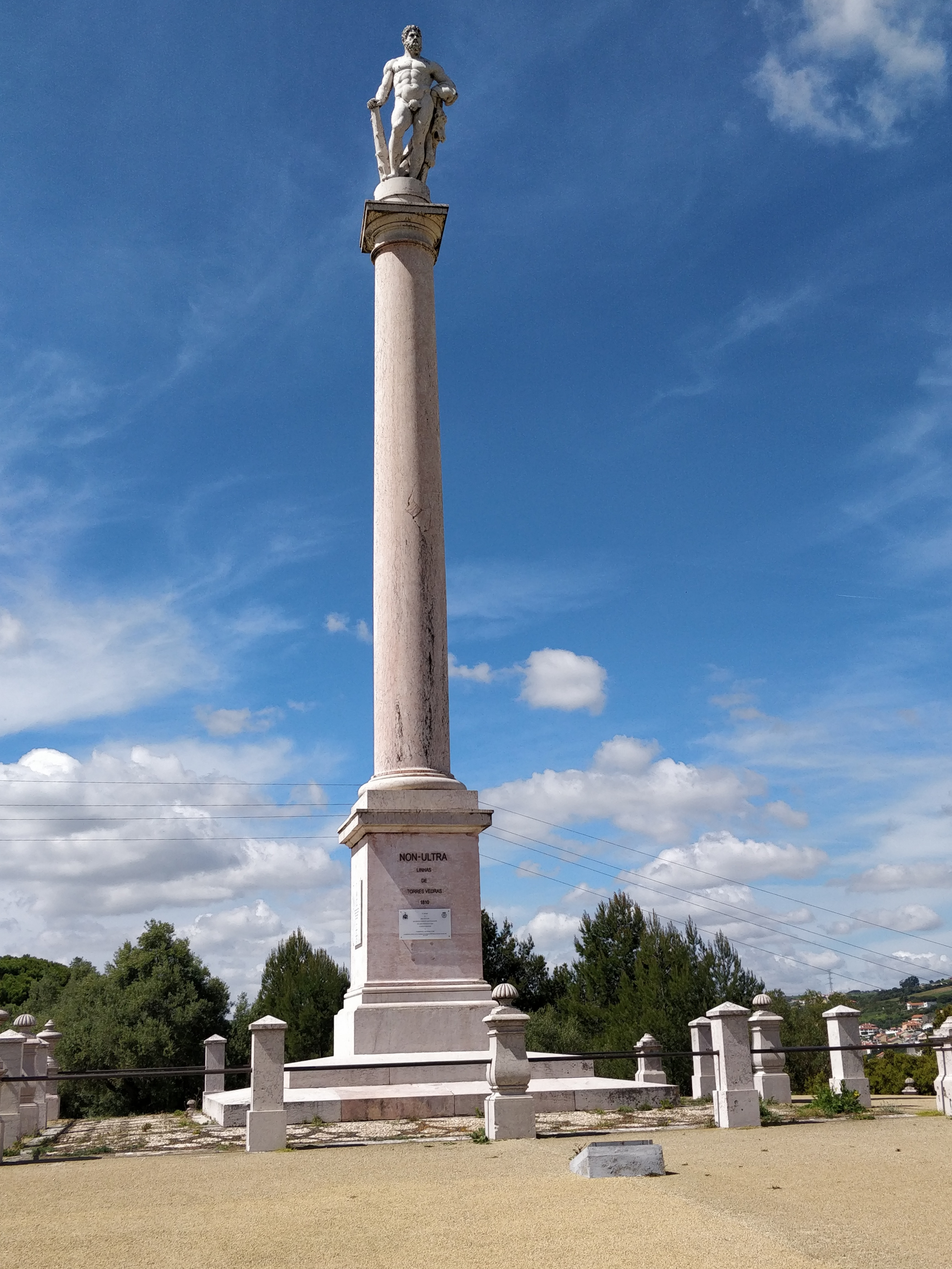 Monument to the Lines of Torres Vedras near Alhandra, north of Lisbon in Portugal